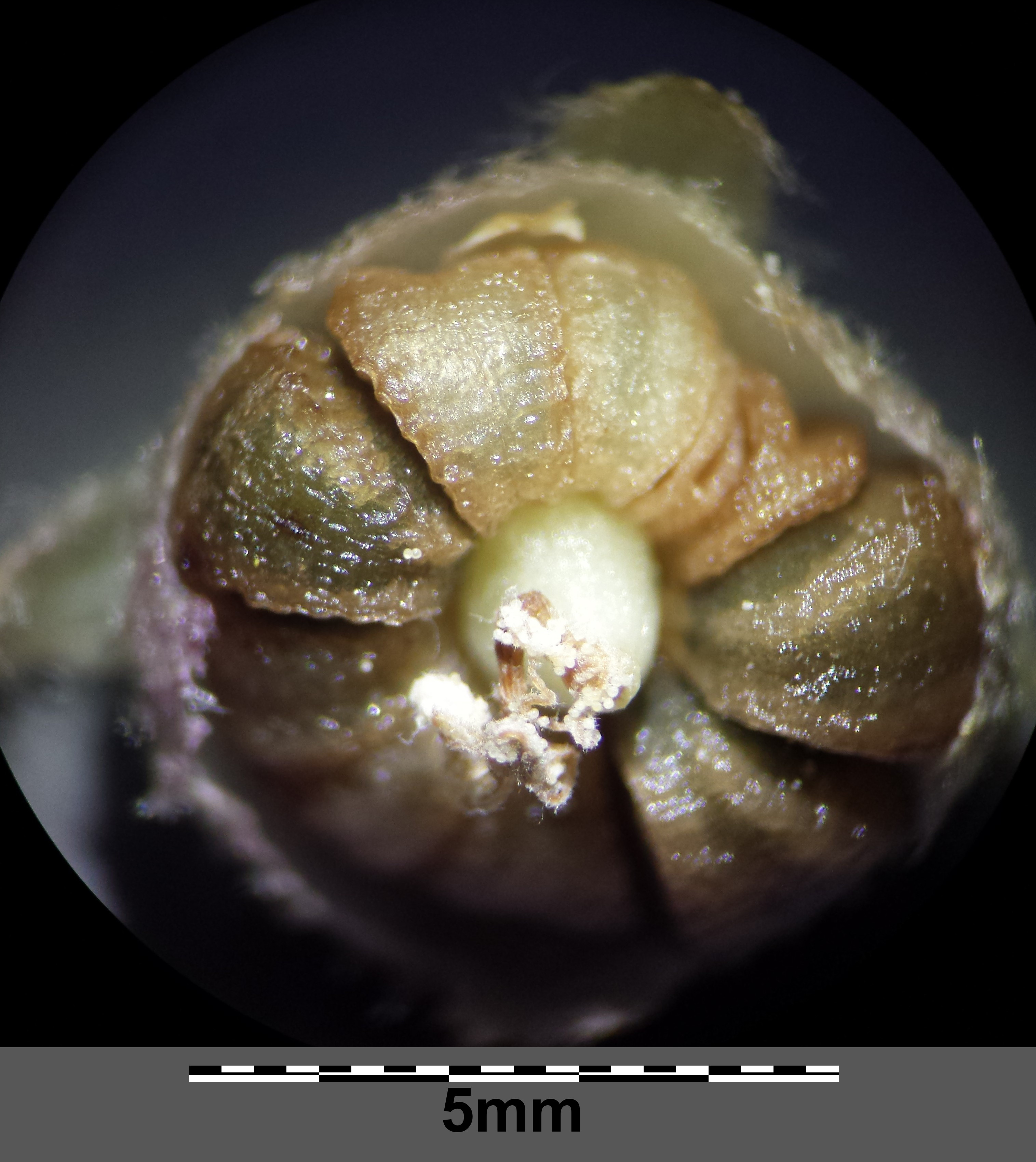 Fruit with fruitlets Taxonym: Malva verticillata ss Fischer et al. EfÖLS 2008 ISBN 978-3-85474-187-9 Location: Steinberg near Niederhollabrunn, district Korneuburg, Lower Austria - ca. 375 m a.s.l. Habitat: field of pumpkins